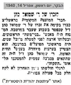 Obituary from Haboker (the Morning) news - death Shmuel (Samuel) Cohen